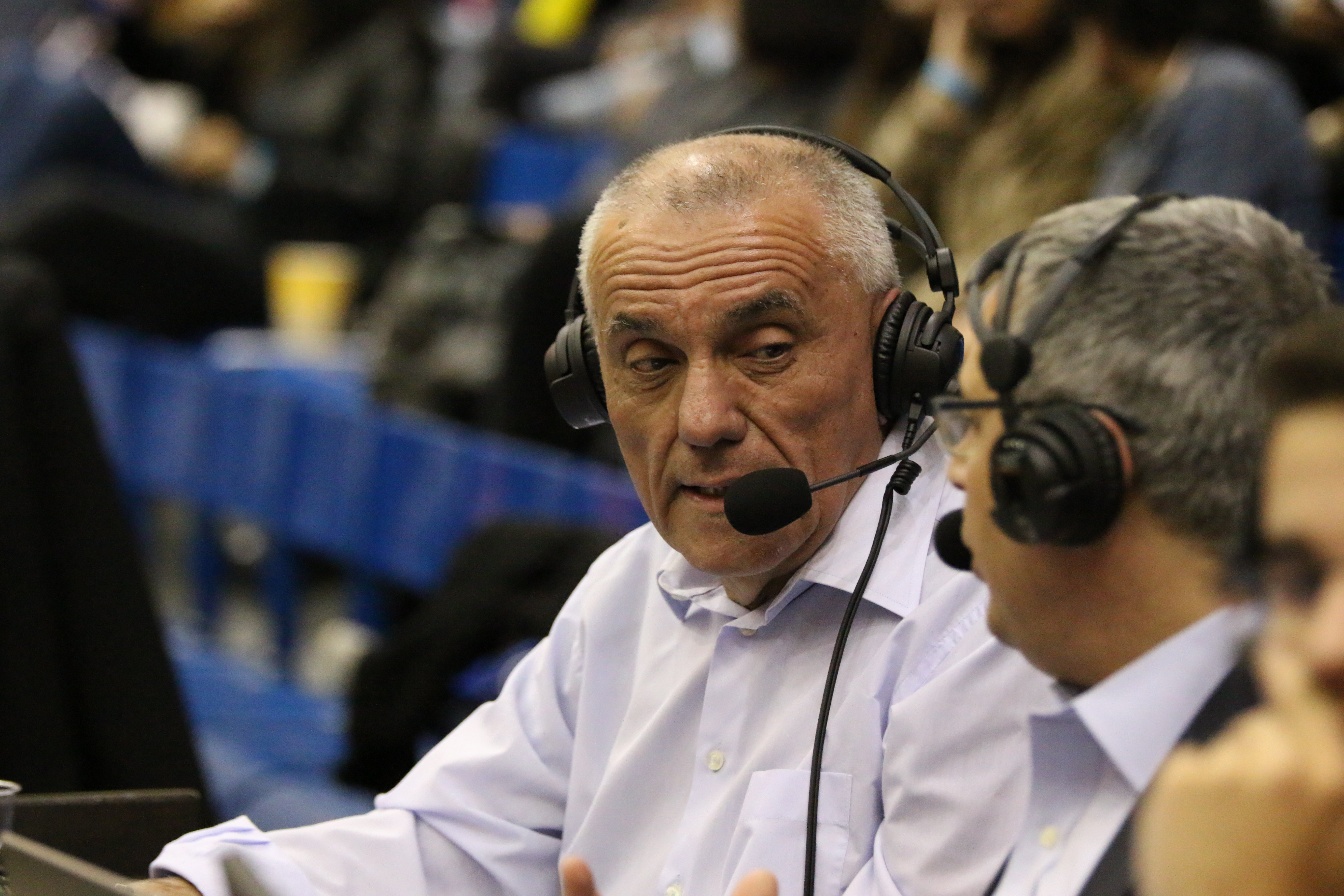 Uri Levi, 2017